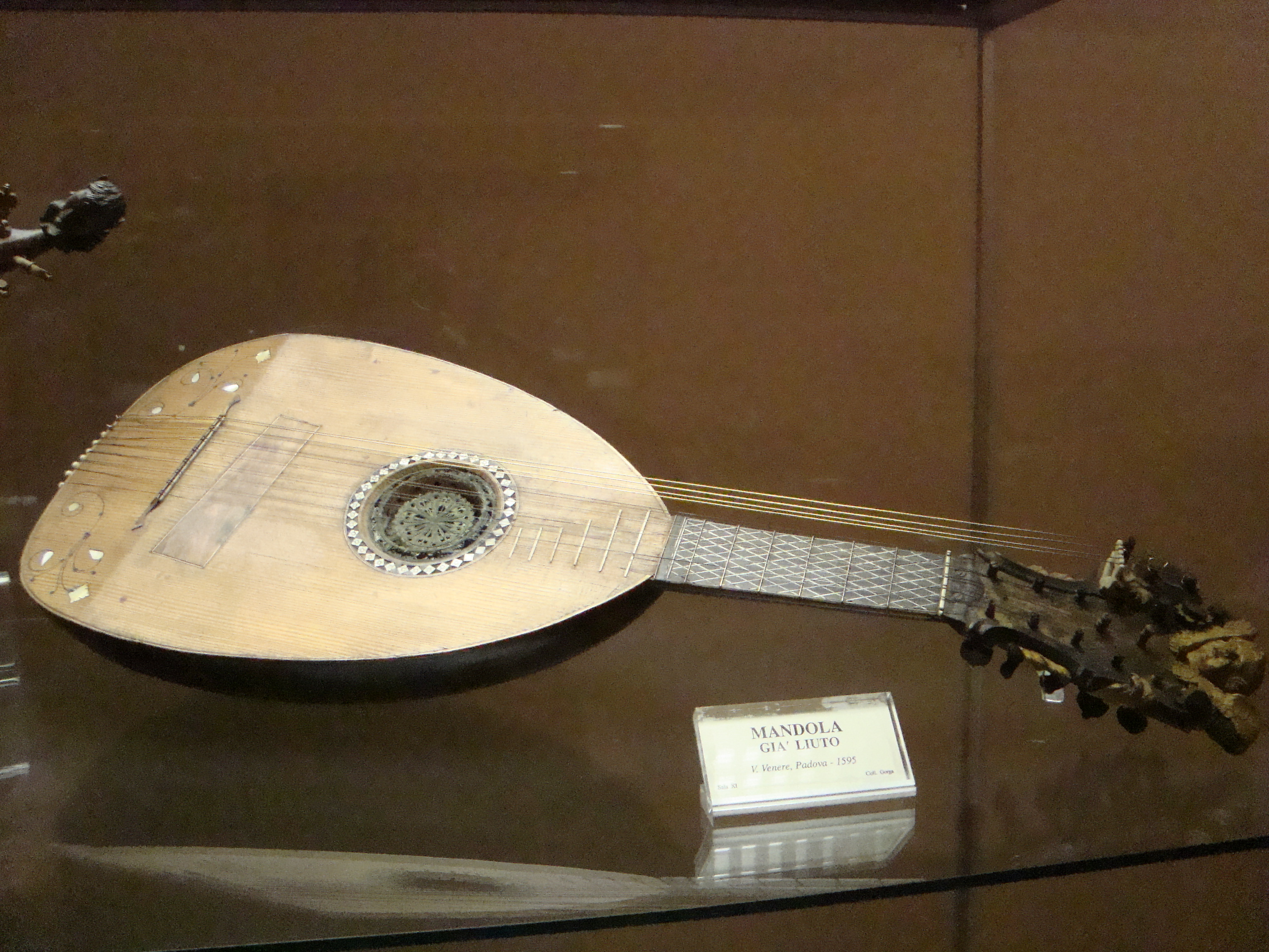 Laouto (or lute?) similar to a mandolin, dating from 1595 by V. Venere in Padua. Collections from the Museo nazionale degli strumenti musicali di Rome. c.f. Genose mandola (c. 1750) MANDOLA GIA' LIUTO V.Venere, Padova - 1595 Reference Friedrich Niederheitmann "Tieffenbrticker (Tiefembrucker), Vendelino Venere" in Cremona: an account of the Italian violin-makers and their instruments, London: Robert Cocks & Co. “Tieffenbrticker (Tiefembrucker), Vendelino Venere. Is supposed to have been a son of Leonardo Tieffenbriicker, according to the inscriptions found in some of his lutes. Worked from about 1572 to 1611; his lutes were celebrated. ...” David Van Edwards. A Brief History of the Lute — Part 2. "Another branch of the Tieffenbrucker family settled in Padua, including Vendelio Venere, who has recently been discovered to be Wendelin Tieffenbrucker, son of Leonardo Tieffenbrucker (see Kiraly, 1994 and 1995). ... A lute by VVendelio Venere (Wendelin Tieffenbrucker) with a multi-rib yew back, though in this case it is heartwood only with maple lines between the ribs. ... VVendelio Venere, Padua, 1582, 66.6cm (fig. 9f) ..."